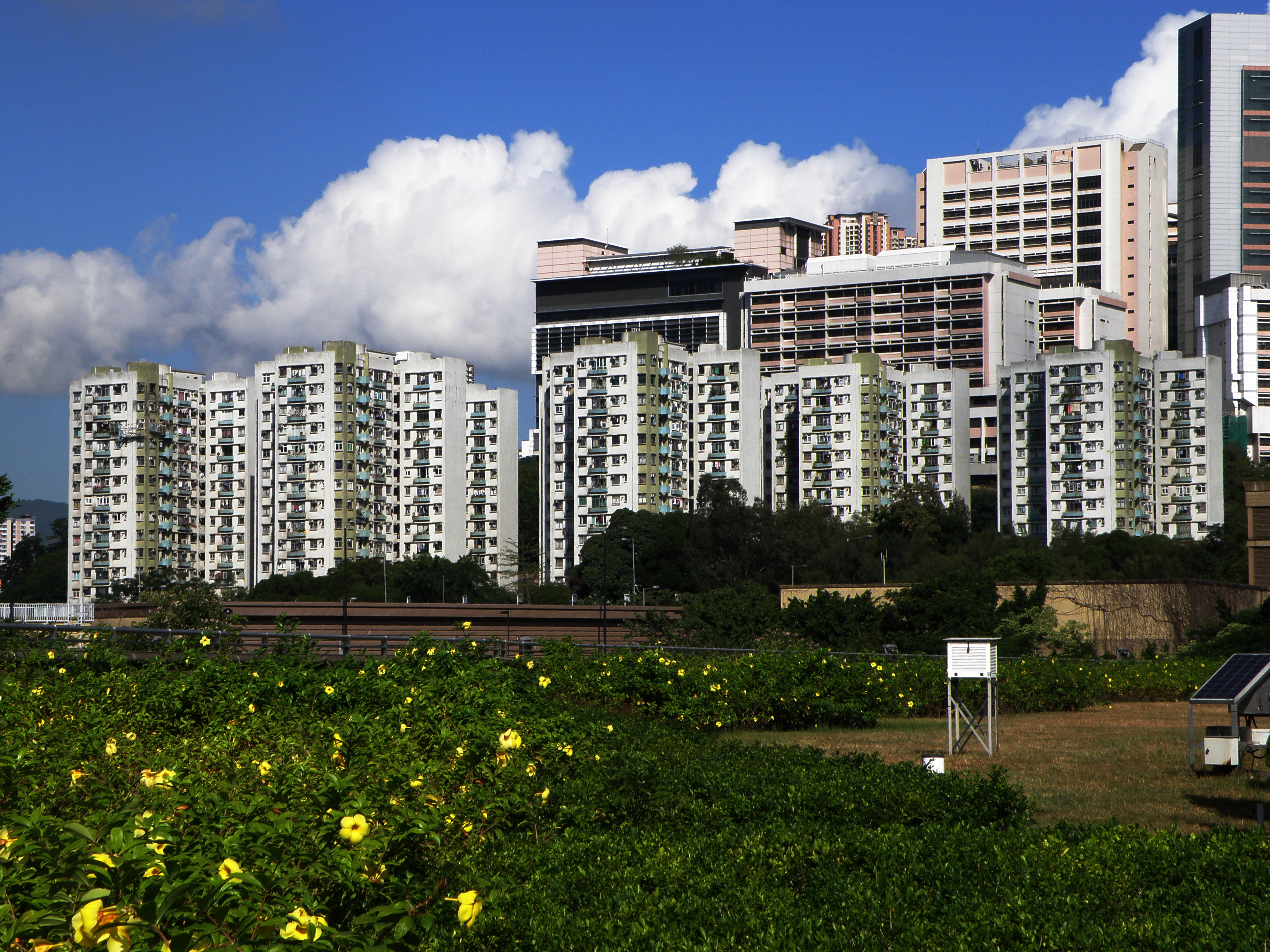 Ching Lai Court in Mei Foo, Hong Kong.